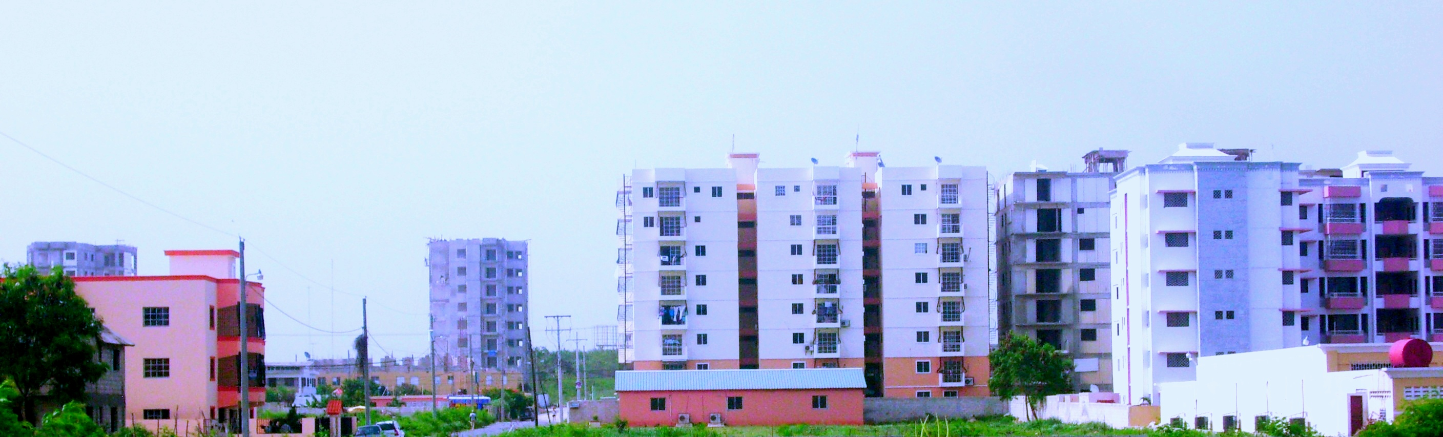 La Romana